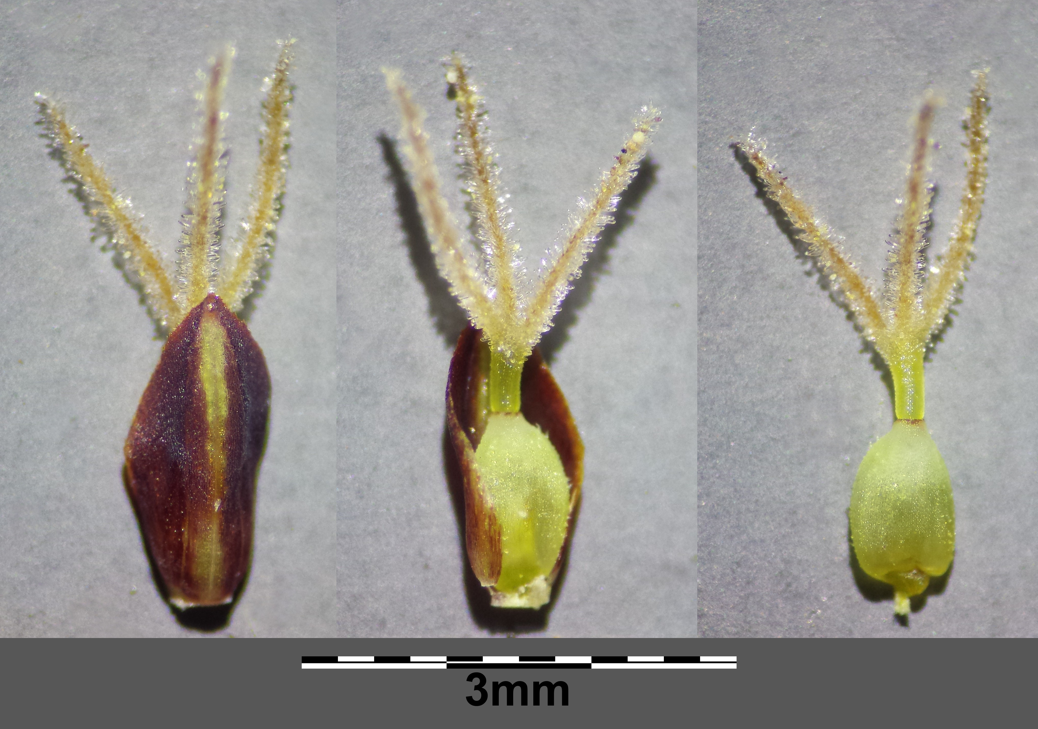 Utricle with glume Taxonym: Carex flacca (subsp. flacca) ss Fischer et al. EfÖLS 2008 ISBN 978-3-85474-187-9 Location: Latschenberg near Altenmarkt im Thale, district Hollabrunn, Lower Austria - ca. 330 m a.s.l. Habitat: semi-dry grassland